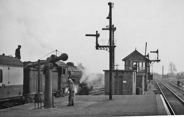 Melton Constable Station, train and East Signalbox. View eastwards, towards Great Yarmouth (ahead) and Norwich (right). The Class B12/3 4-6-0 taking water is the 13.11 Peterborough to Yarmouth Beach. Melton Constable was the centre of the former Midland & Great Northern (M&GN) system, which extended from Saxby, Bourne, Spalding, Peterborough and Kings Lynn in the west to Sheringham and Cromer, Yarmouth and Norwich in the east. As the system largely duplicated others lines and carried little traffic, it was closed almost entirely as early as 2/3/59 (four months after this photograph), except for a service between here and Sheringham that continued until 6/4/64 (28/12/64 for freight), after which all the considerable railway facilities at Melton Constable disappeared almost without trace.